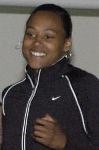 Marion Jones, American olympic athlete.